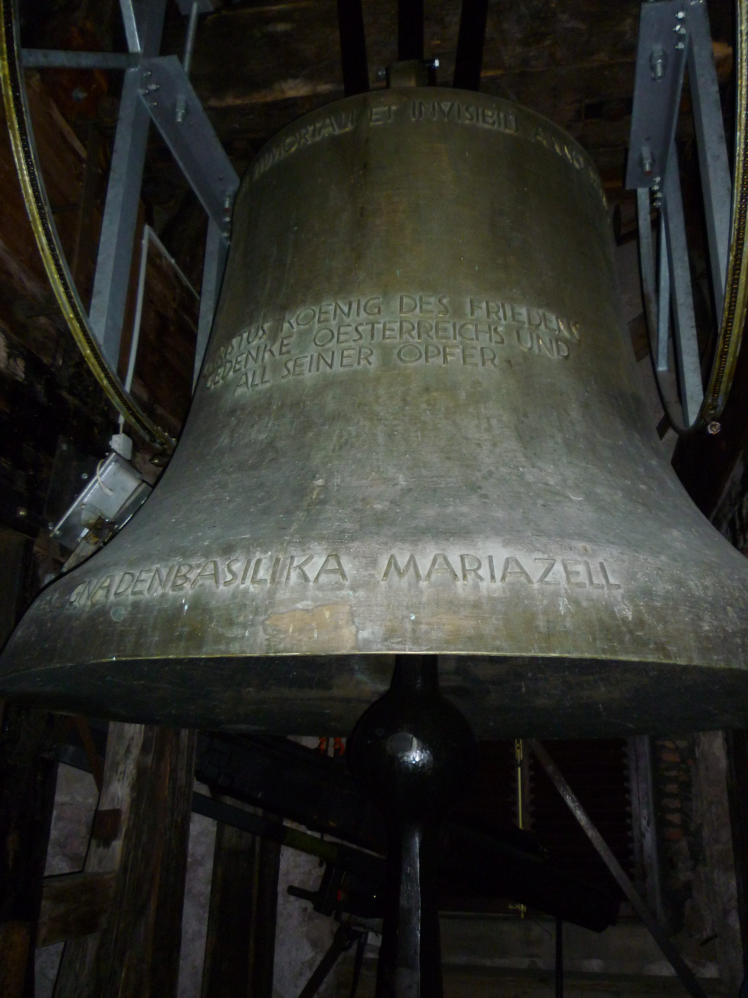 Big bell of Mariazell Basilica, cast 1950 in St. Florian. Strike tone g0, weight 5.702 kg, diameter 210 cm. This bell can be seen as prototype of Vienna's Pummerin.